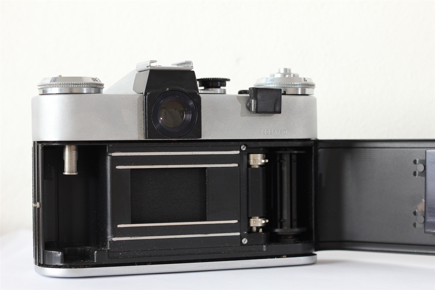 Zenit-E